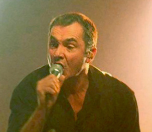 Fletcher performing at Barfly Club, Aberdeen in December 2008